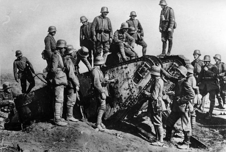 German soldiers inspecting a destroyed English tank on the Western Front, between Bapaume and Arras.